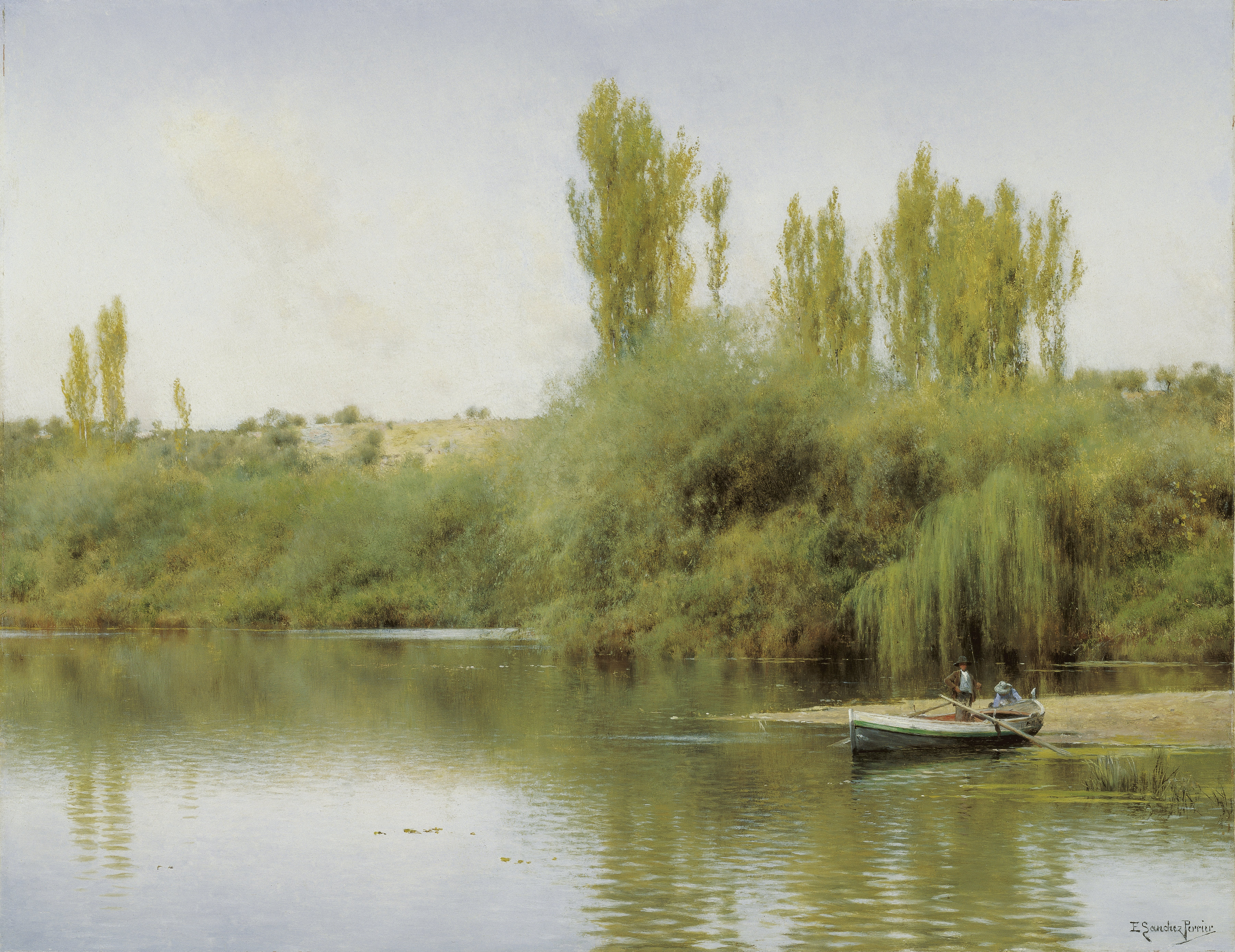 Bank of the Guadaira with Boat Oil on panel 31.7 x 40.6 cm, Inv. CTB.1997.1 Carmen Thyssen Museum Native nameMuseo Carmen Thyssen MálagaLocationMálaga, (Spain)Coordinates36° 43′ 17″ N, 4° 25′ 22″ W Established2011Web page control : Q5043601 VIAF: 230371067 LCCN: no2012034269 GND: 16335044-9 SUDOC: 163469776 BNF: 16968889h WorldCat